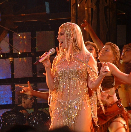 Cher during her Paris Farewell Concert on May 20th 2004.